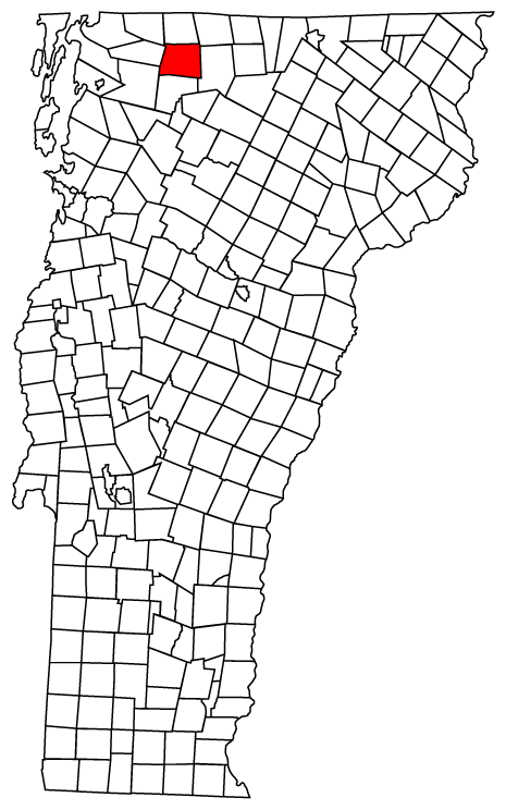 Description: Map of Vermont towns with Enosburg highlighted Source: Map created by Jared C. Benedict on 26 March 2004. Copyright: © Jared C. Benedict.